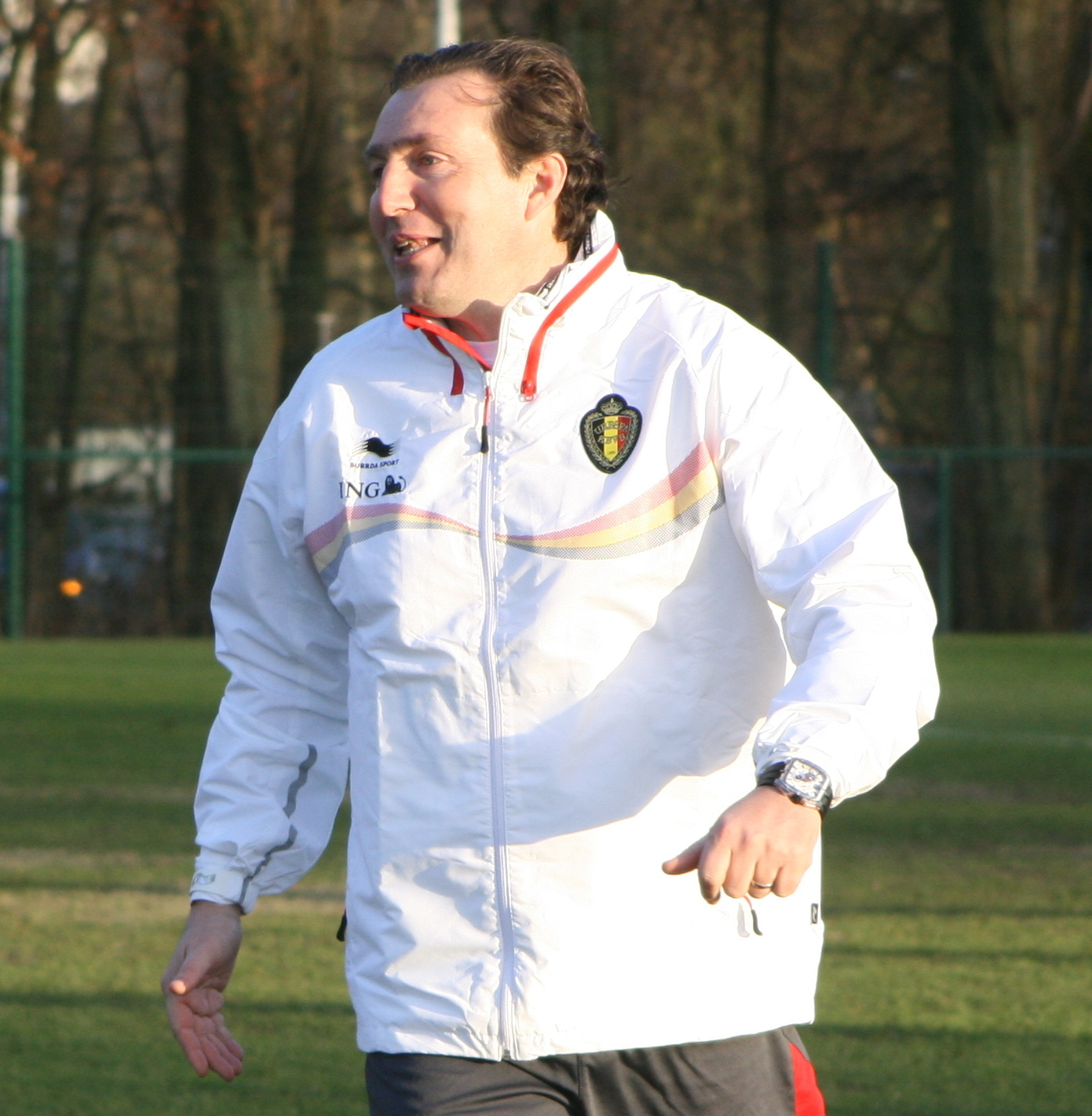 Marc Wilmots during a training session with the belgian Red Devils